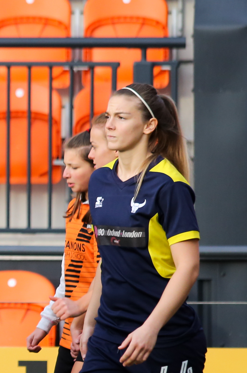 London Bees v Oxford United WFC, 9 December 2017